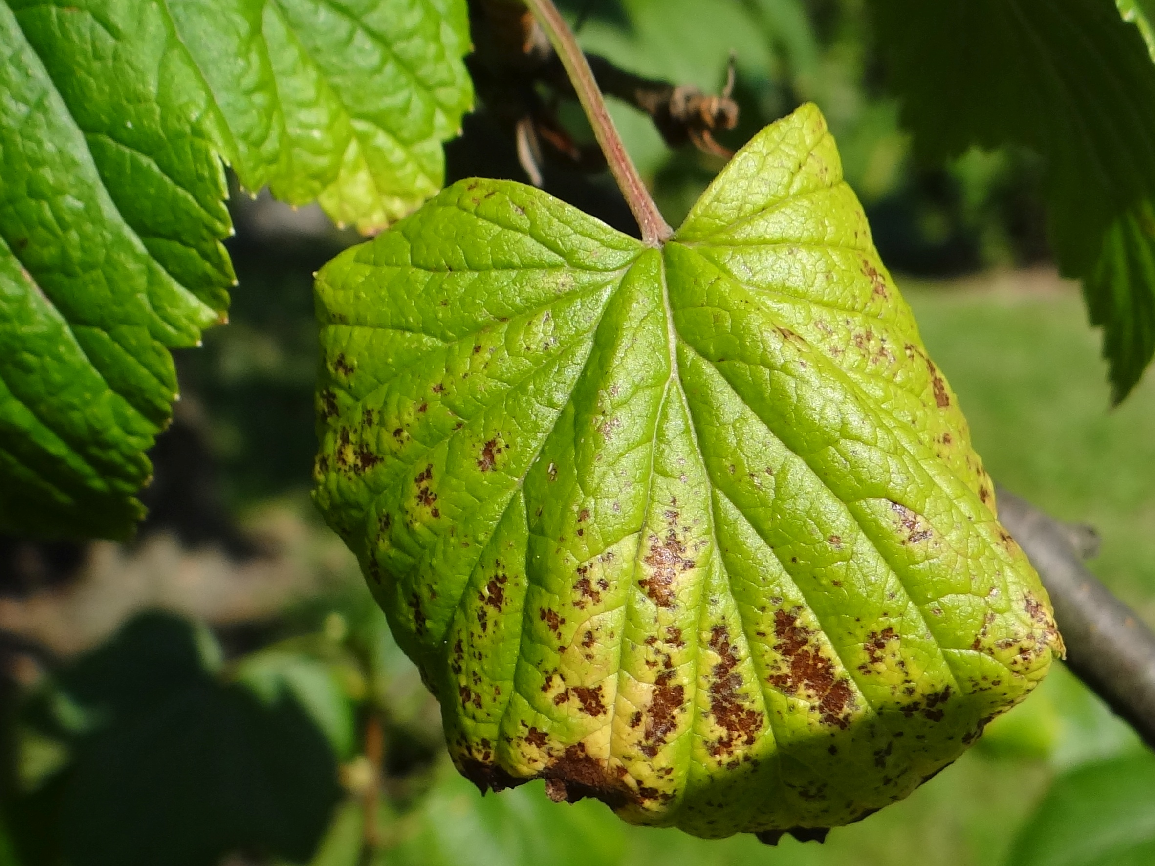 Drepanopeziza ribis on Ribes sp.(location: Poland)